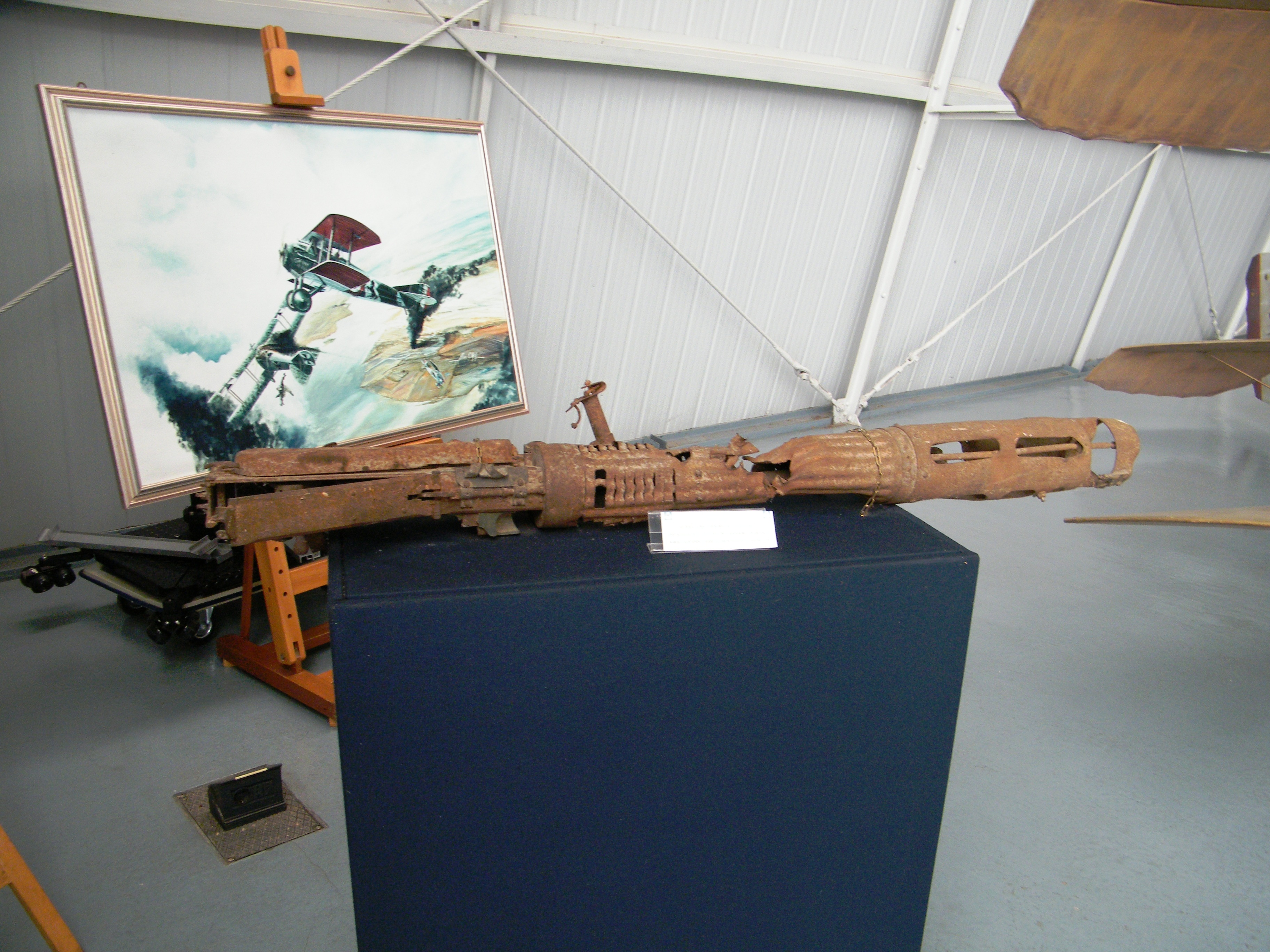 The machine gun of the airplane of Francesco Baracca when he was shoot down at the Italian Air Force Museum, Vigna di Valle in 2012